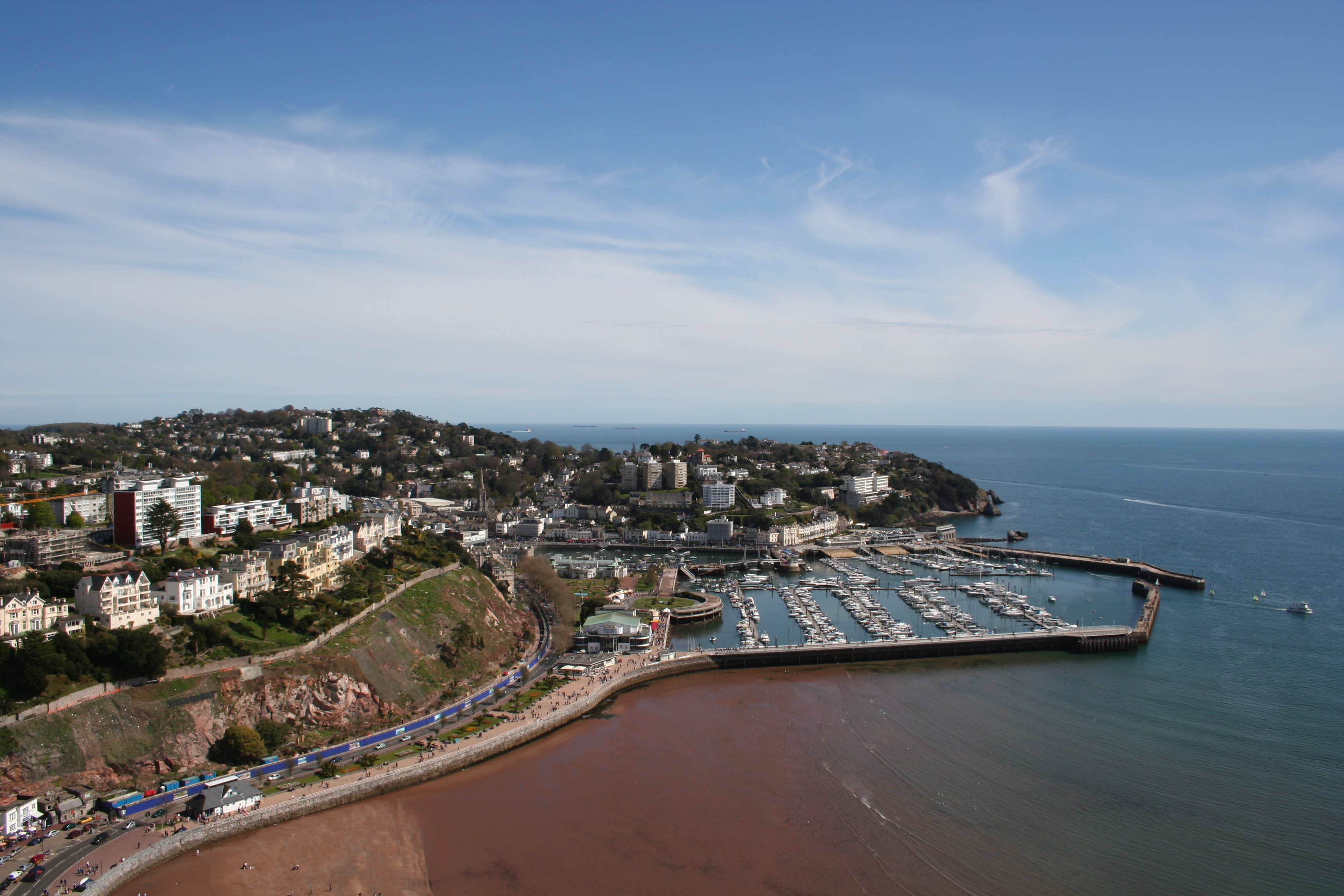 Torquay Harbour, was taken from a balloon (altitude: about 122 meters)